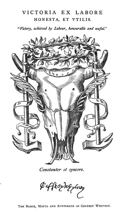 The badge, motto and autograph of Geoffrey Whitney, from Henry Green's facsimile edition of Choice of Emblemes (1866)